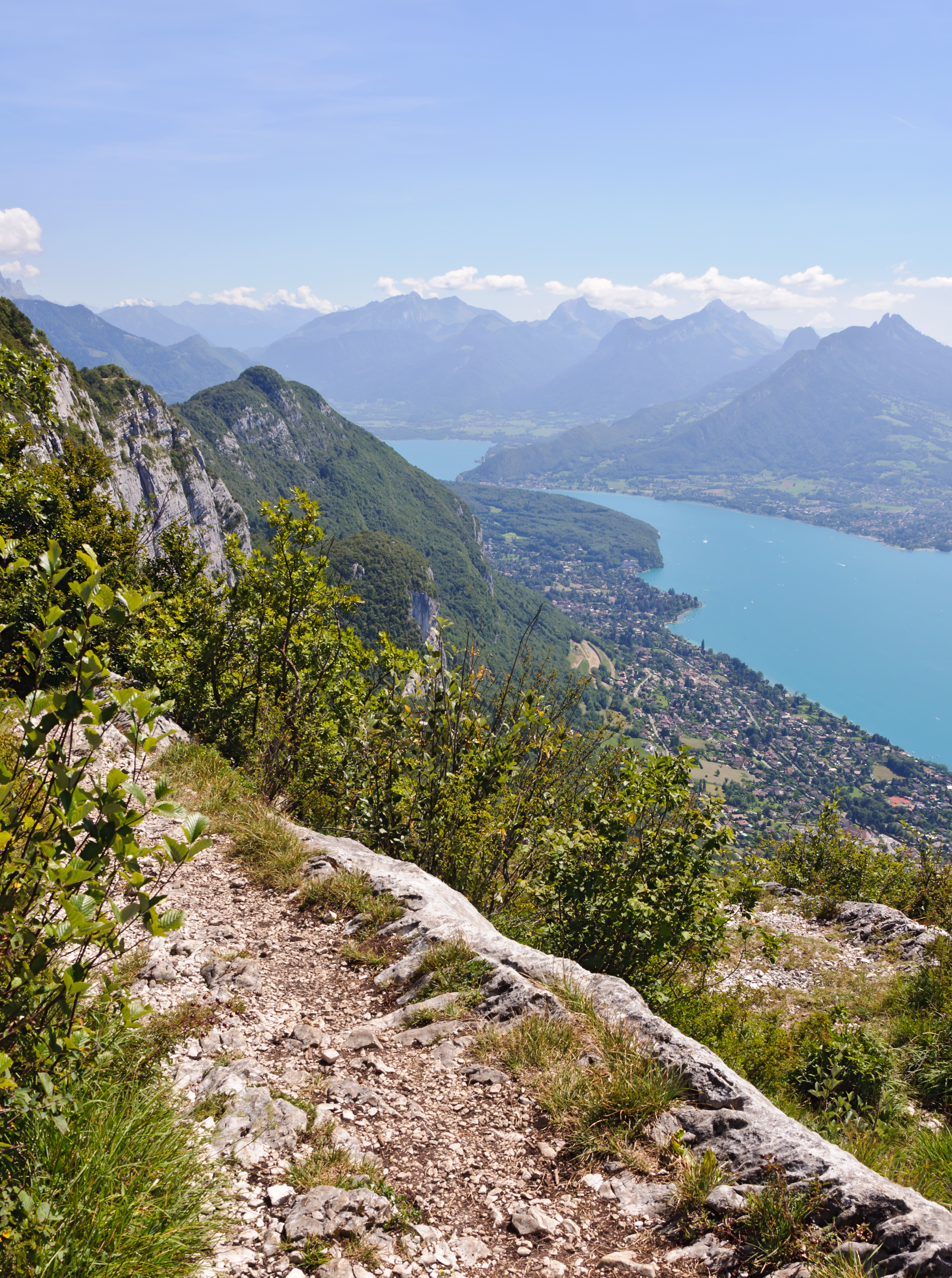 Trail on the crest between Mont Veyrier and Mont Baron, above Veyriez-du-Lac and Lake Annecy, Haute-Savoie, France.